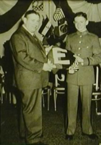 Ted McElroy and his son John holding the Army Navy E award flag at presentation held in Boston Massachusetts